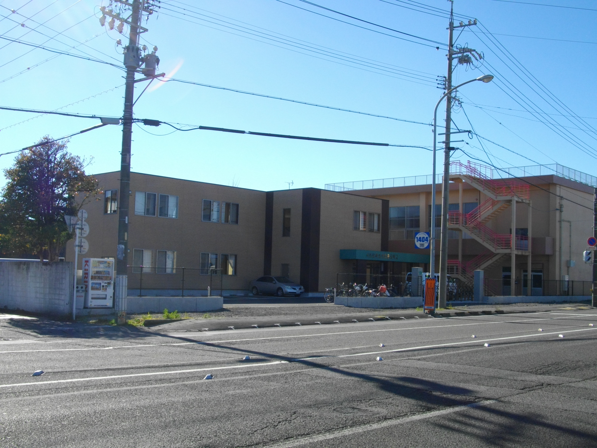 Shizuoka Korean Elementary and Junior High School